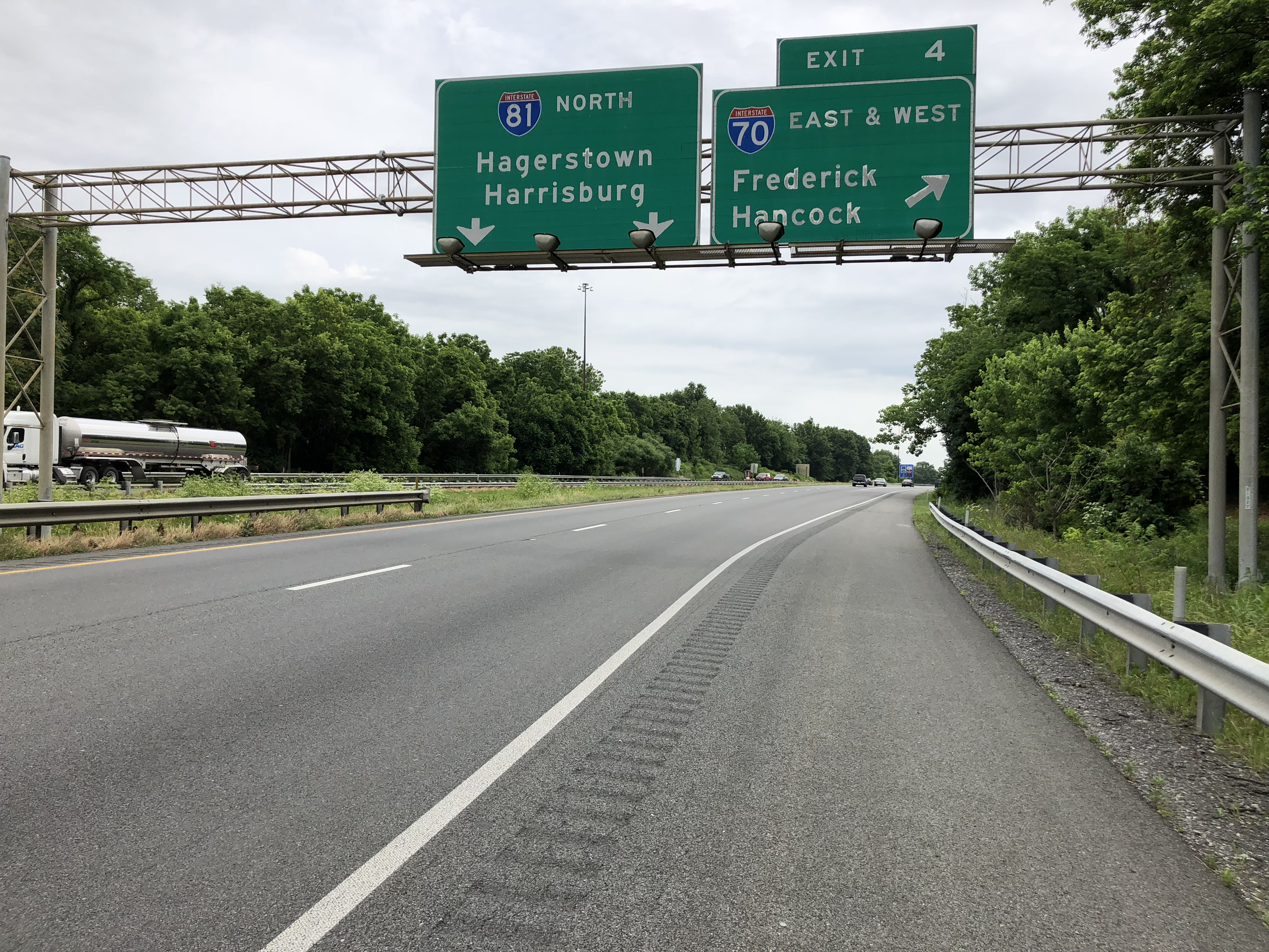 View north along Interstate 81 at Exit 4 (Interstate 70, Frederick, Hancock) in Halfway, Washington County, Maryland